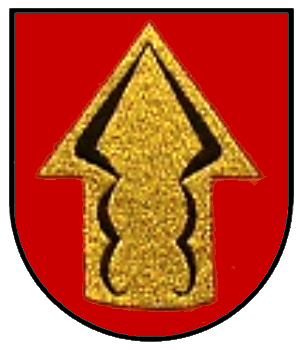 Coat of arms of Pforzheim Converted into PNG format and transparency added by Enslin.